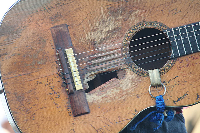 Willie Nelson's guitar, Trigger soundboard, in Coachella in 2007.